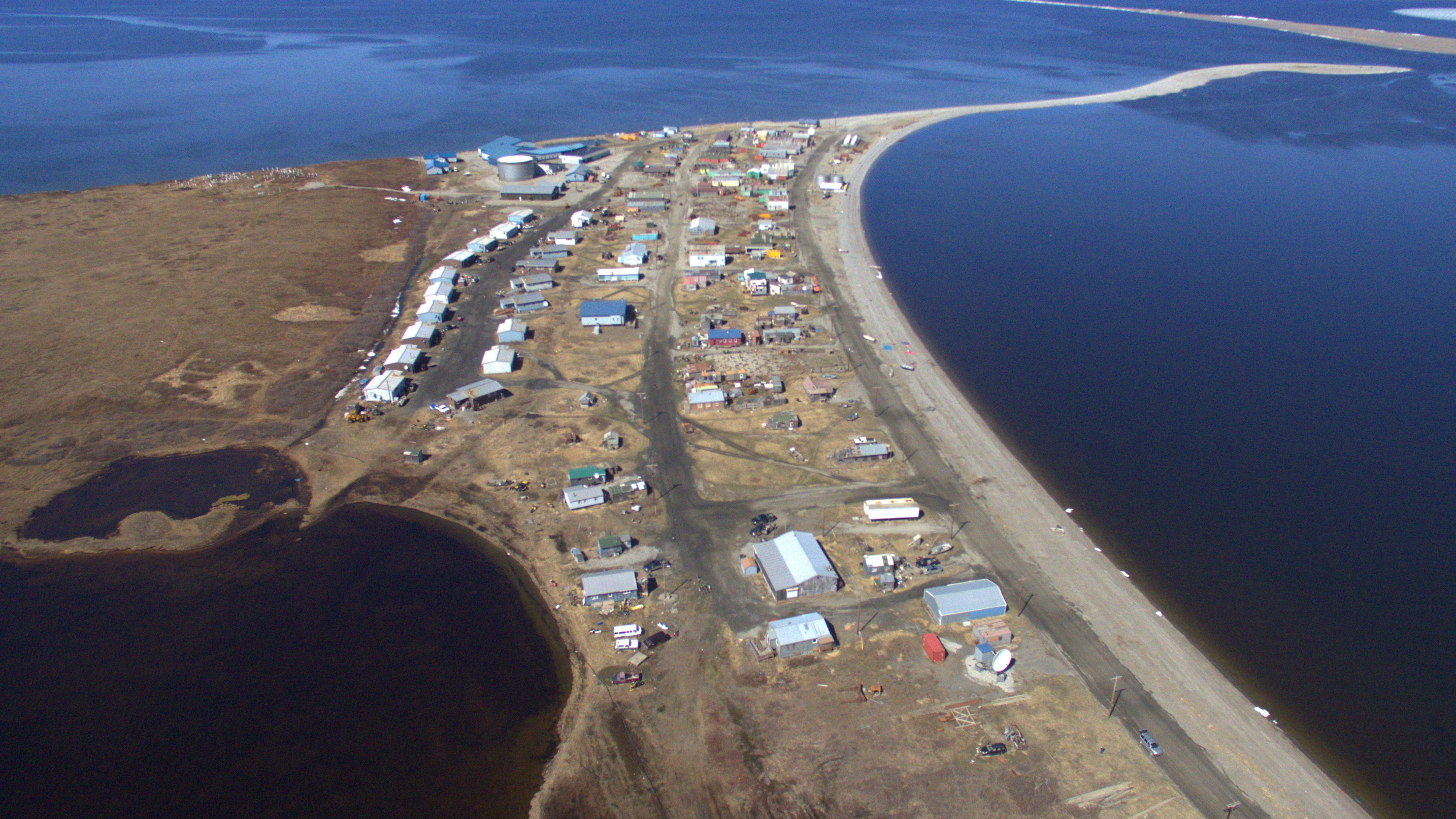 Teller Alaska is one of a handful of remote Isolated Native Villages located in the Bering Straits Region of Western Alaska.